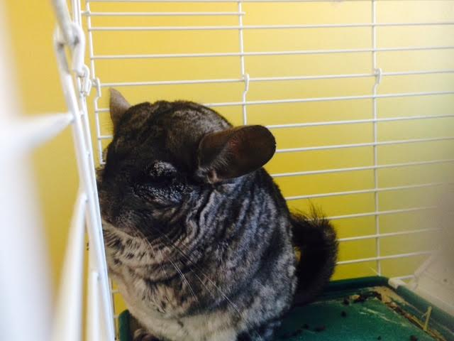 A domestic Chinchilla at her cage